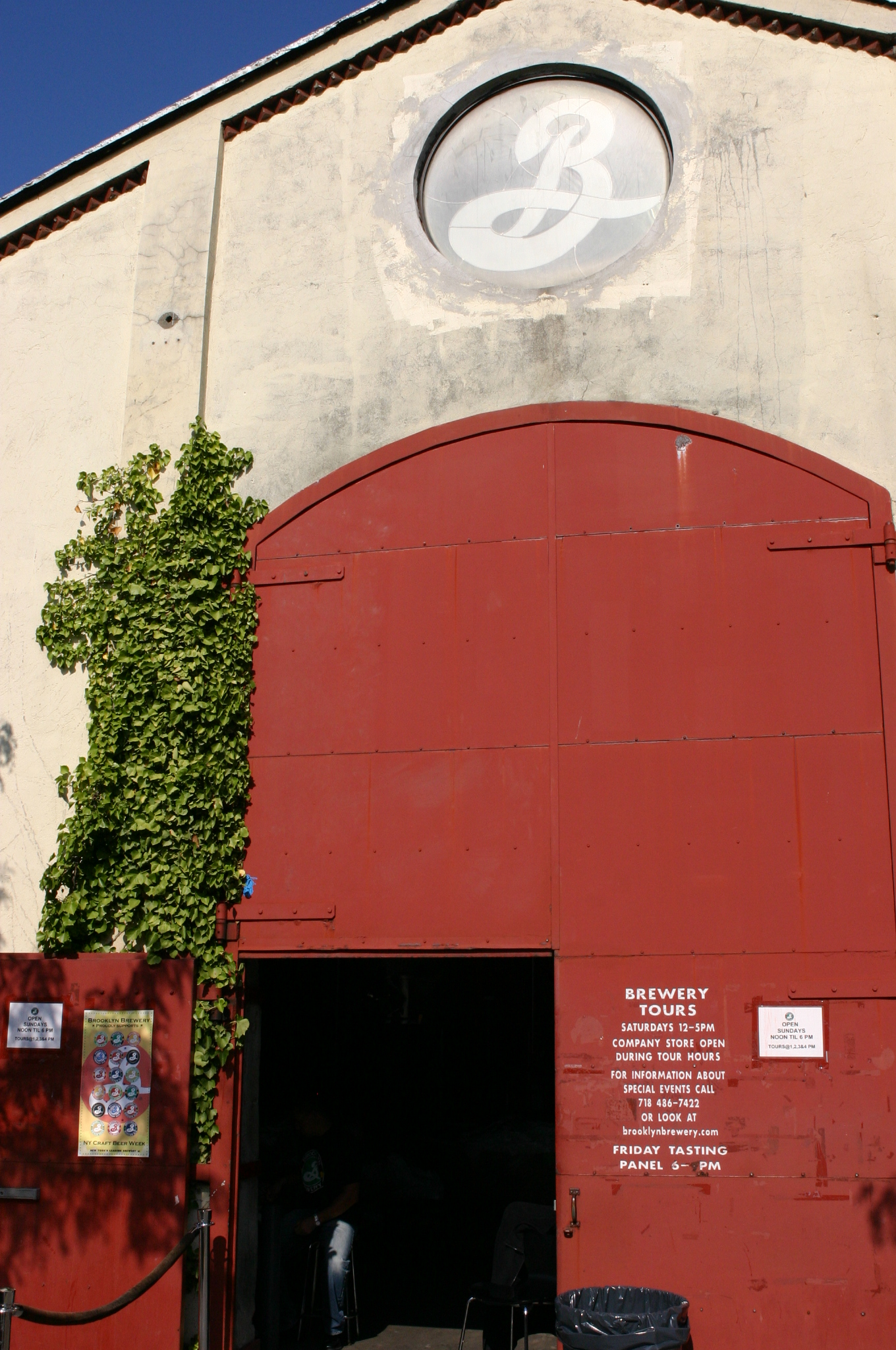 This photo is of Wikis Take Manhattan goal code J34, Brooklyn Brewery.